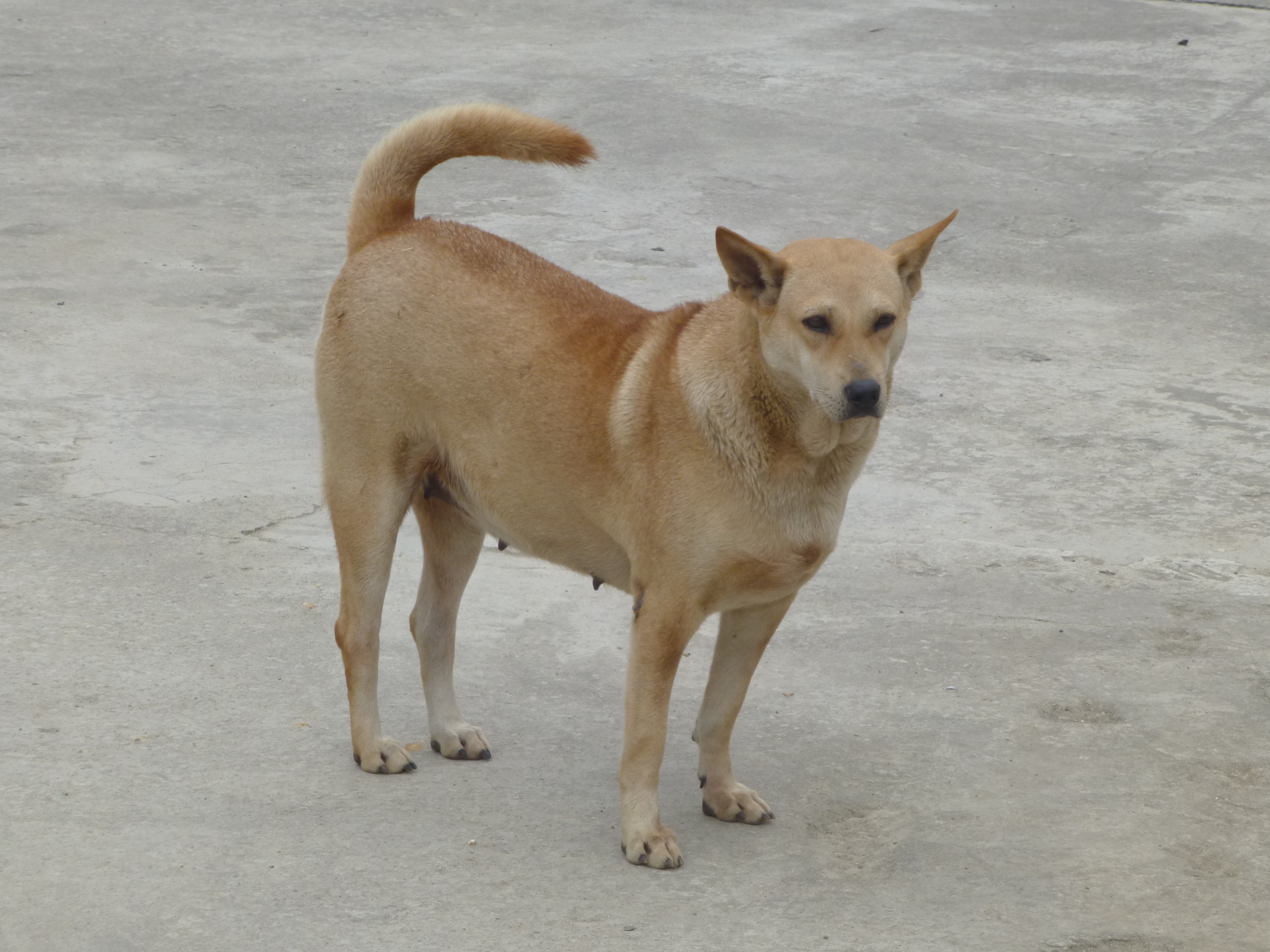 Typical dogs of northwestern Vietnam, seen near Yen Bai, Their likes can be seen next to nearly every house in that area.